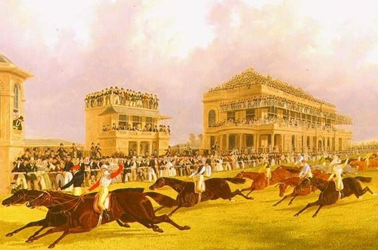 The Dead Heat for the Doncaster Great St. Leger Stakes between 'Charles XII' and 'Euclid', 1839 by John Frederick Herring (1795-1865). Artist dead for 147 years.